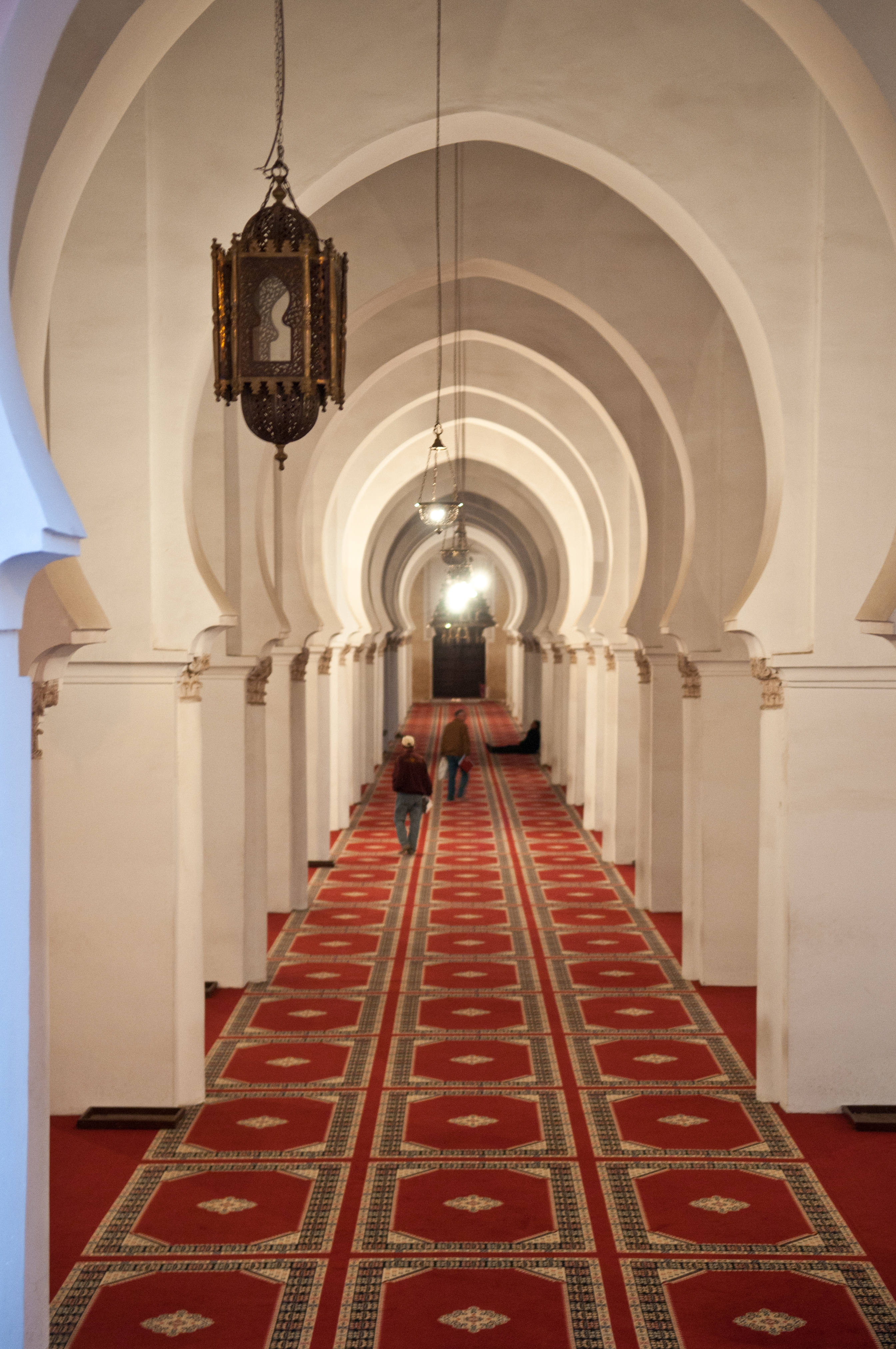 Marrakesh, inside of Koutoubia Mosque